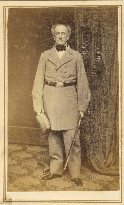 Admiral Franklin Buchanan, Confederate States Navy. Entered the U.S. Navy as a midshipman in 1815. Served numerous commands at sea and ashore, including the Naval Academy's first superintendent; Mexican War veteran. Resigned his U.S. Navy commission in April 1861 and was commissioned as a captain in the Confederate Navy in September 1861. Commander of the C.S.S. Virginia during its first sortie into Hampton Roads in March 1862, where he was wounded. Promoted to admiral in August 1862, the first and only Confederate full admiral. Later assigned to the maritime defenses of Mobile where his fleet was defeated in August 1864. Alabama Department of Archives and History